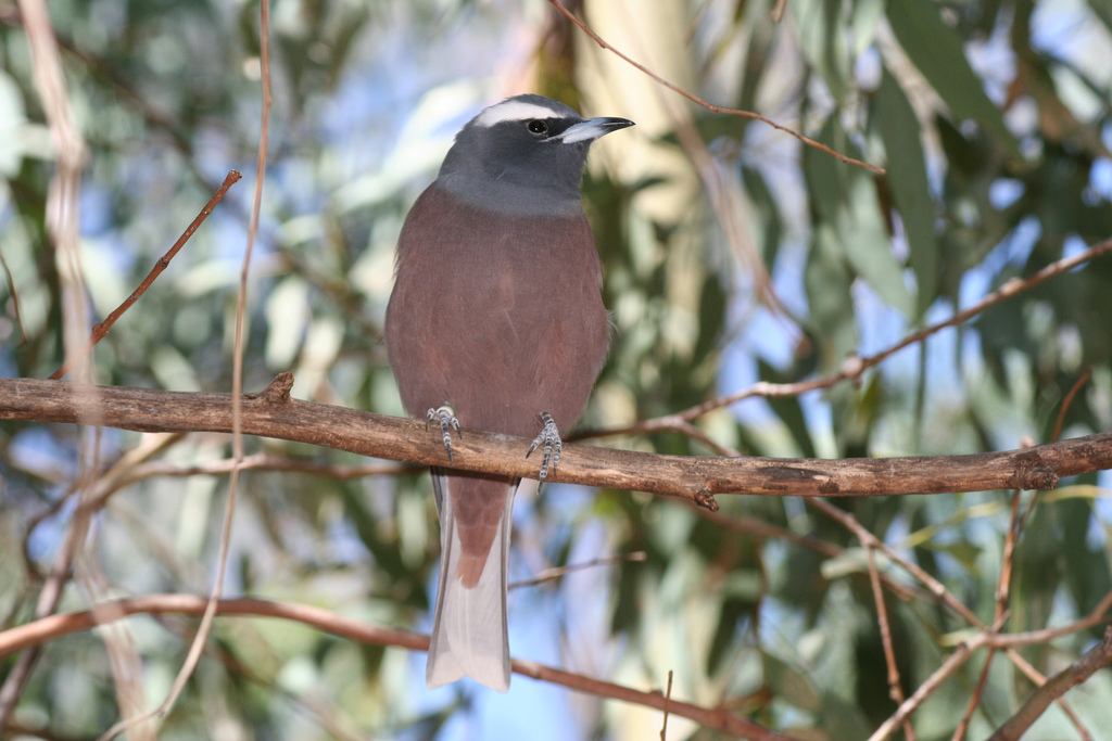 This guy was photgraphed at Western Plains Zoo in Dubbo, NSW Australia.